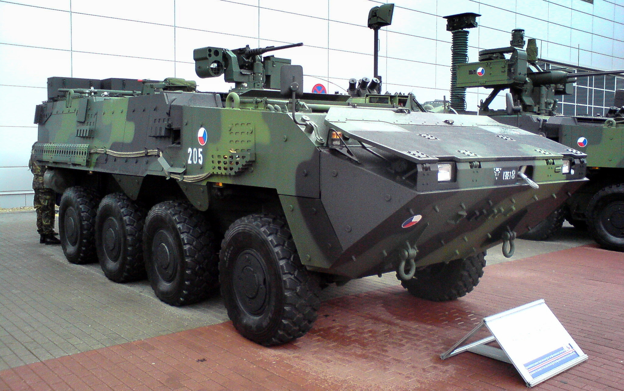 Czech Pandur II APC, engineer variant KOT-Ž.